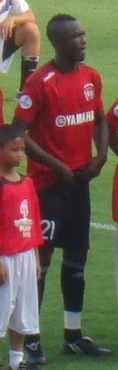 Siaka Dagno at Suphachalasai Stadium